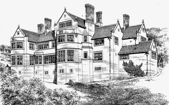 Drawing of Bronwylfa, a house in Flintshire, Wales